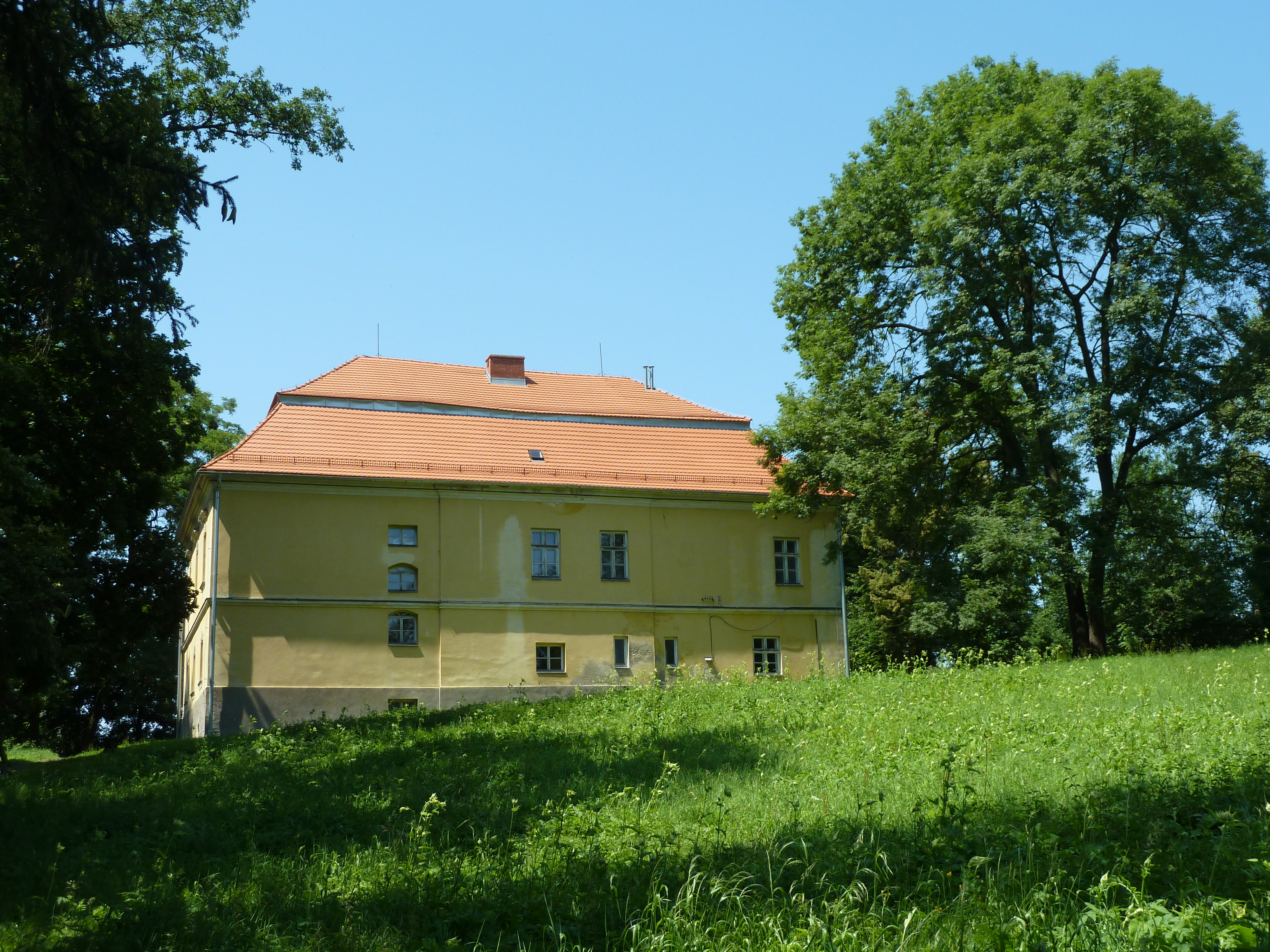 Castle in village Trnávka (north-eastern Moravia, Czech Republic)